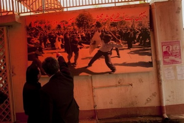 pakistani lawyers